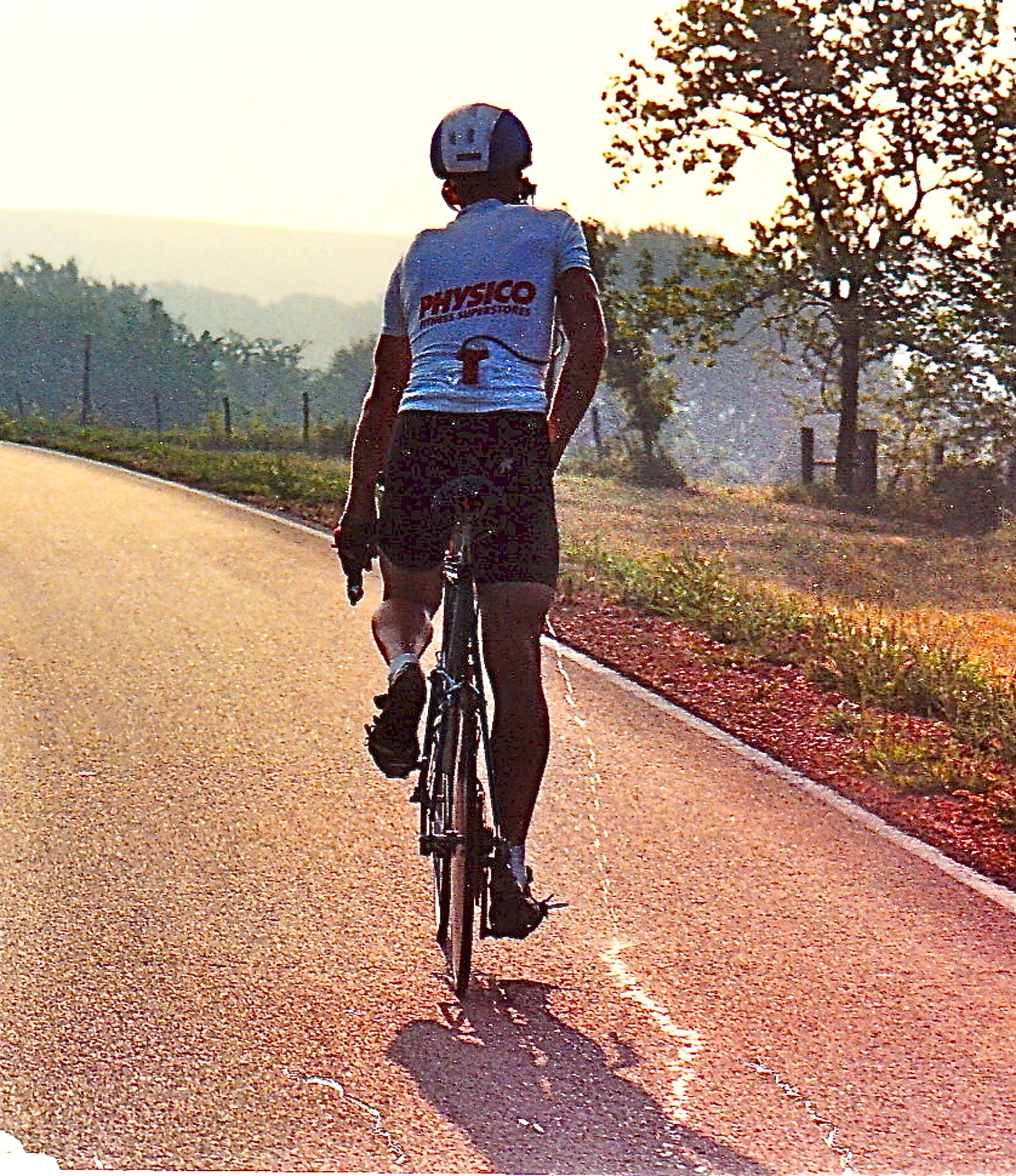 Every second counts so rarely do cyclists competing in "RAAM" dismount the bike when nature calls such as the photo of '89 competitor Rick Kent.